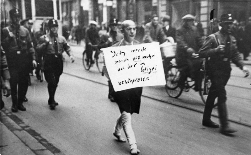 Munich, persecution of Jews, Michael Siegel ADN-ZB/Archive. Germany under the fascist terror regime 1933-1945 This photo from March 1933 became known worldwide as a document of shame of the Nazi thugs. A Jewish lawyer, who still trusted in the police as the defender of law and order, is driven across the Stachus square in Munich by SA thugs, who functioned as auxiliary police. The man shown on the photo, the Munich lawyer Dr Michael Siegel, one of the first victims of the brown terror regime, was one of the few to survive it, in spite of having persevered in Germany into the War years. He passed away on 15 March, 1979, aged 97, in Lima (Peru). [Munich.- Shaven, bare-footed Jewish lawyer Dr Michael Siegel under SS custody with a sign ("I will never again complain to the police"), running across the Stachus square; cf. image 146-1971-006-02]more of this photos and history at Yad Vashem website